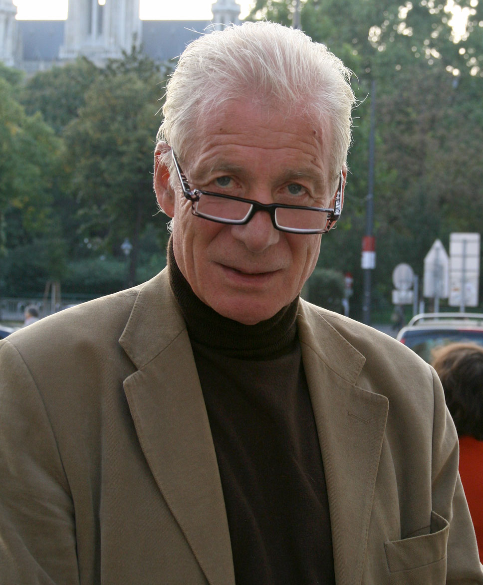 Journalist and author Peter Michael Lingens (literary evening "Rund um die Burg" 2009 near the Burgtheater in Vienna).